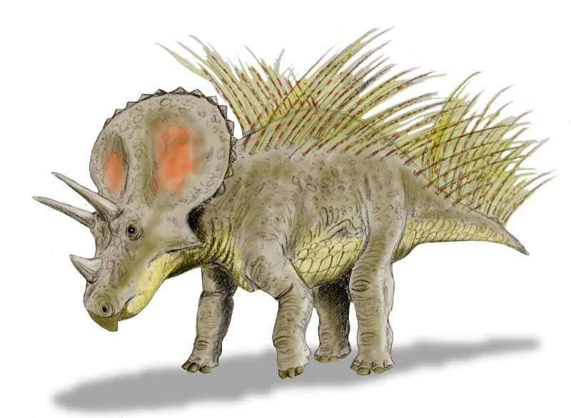 Triceratops new look according to recent discoveries of extensive fossilized skin impression